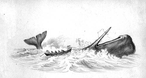 Hunting of Sperm whale